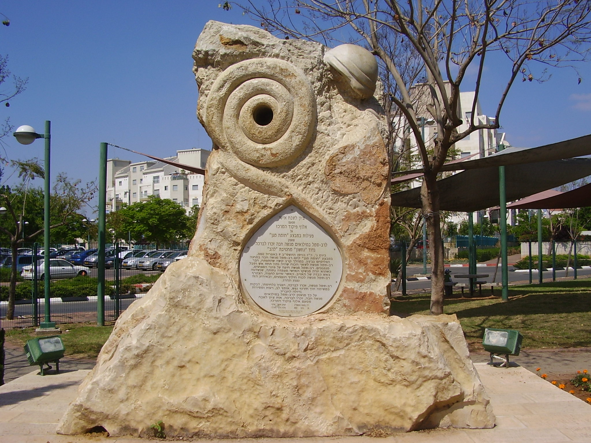 "Tears of Courage" Sculpture in Kfar-Saba, Israel